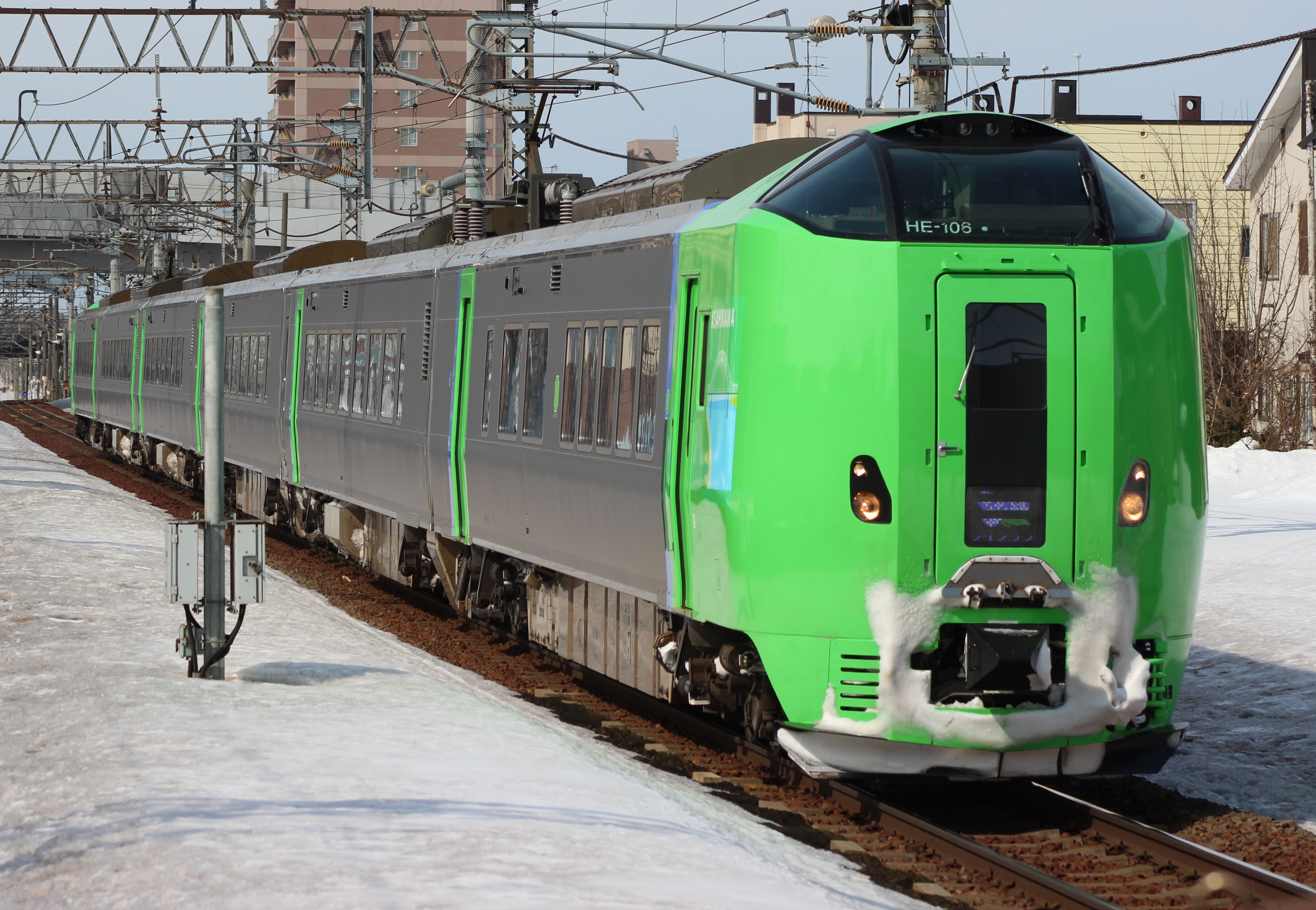 JR Hokkaido 789 series EMU set HE-106 passing Shiroishi Station on a Lilac limited express service